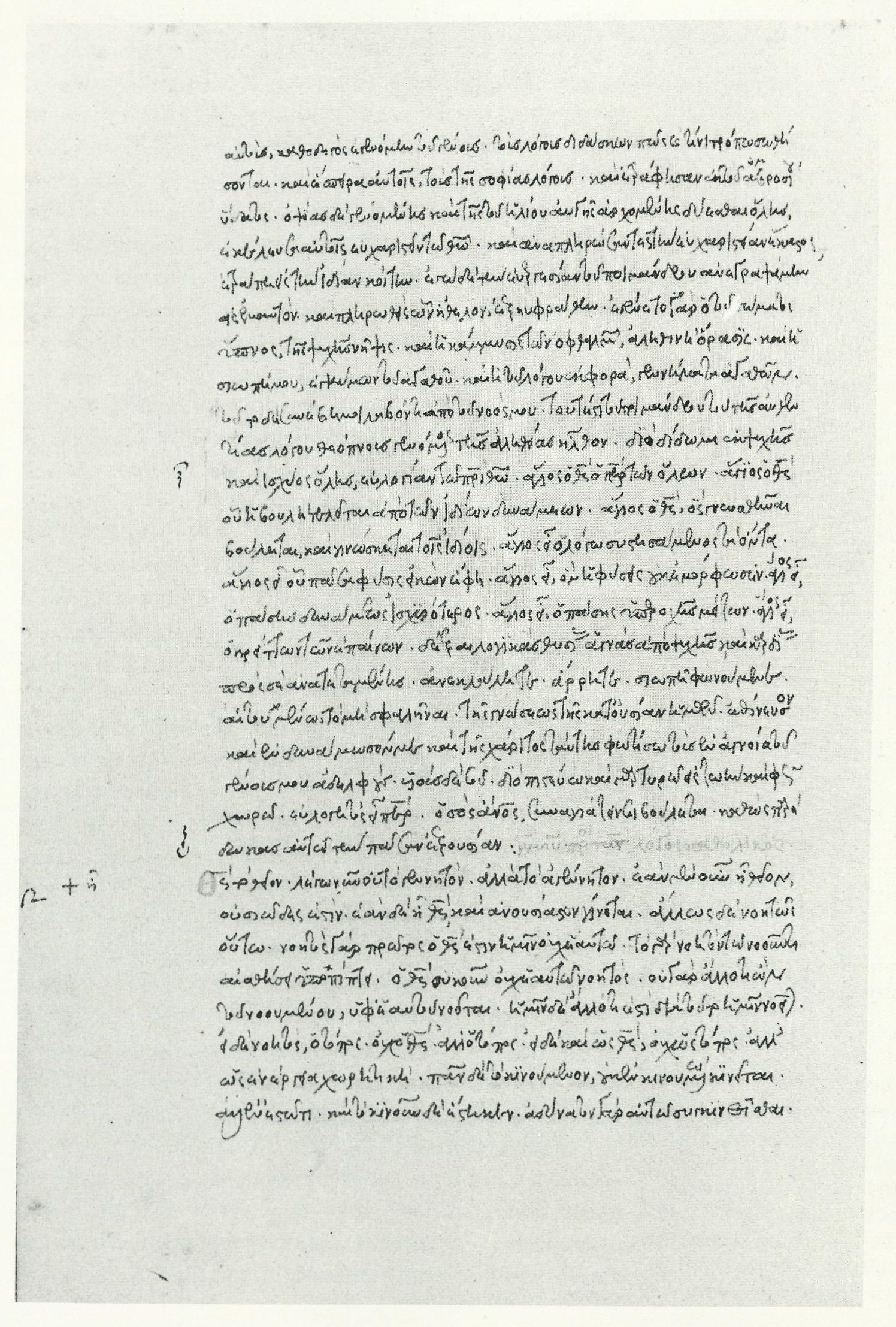 The hymn at the end of the Poimandres, the first treatise of the Corpus Hermeticum, in the manuscript Florence, Biblioteca Medicea Laurenziana, Plut. 71.33, fol. 125v.